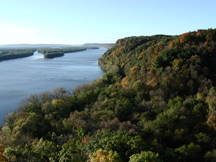 View of the Mississippi River from Effigy Mounds National Monument. National Park Service Site